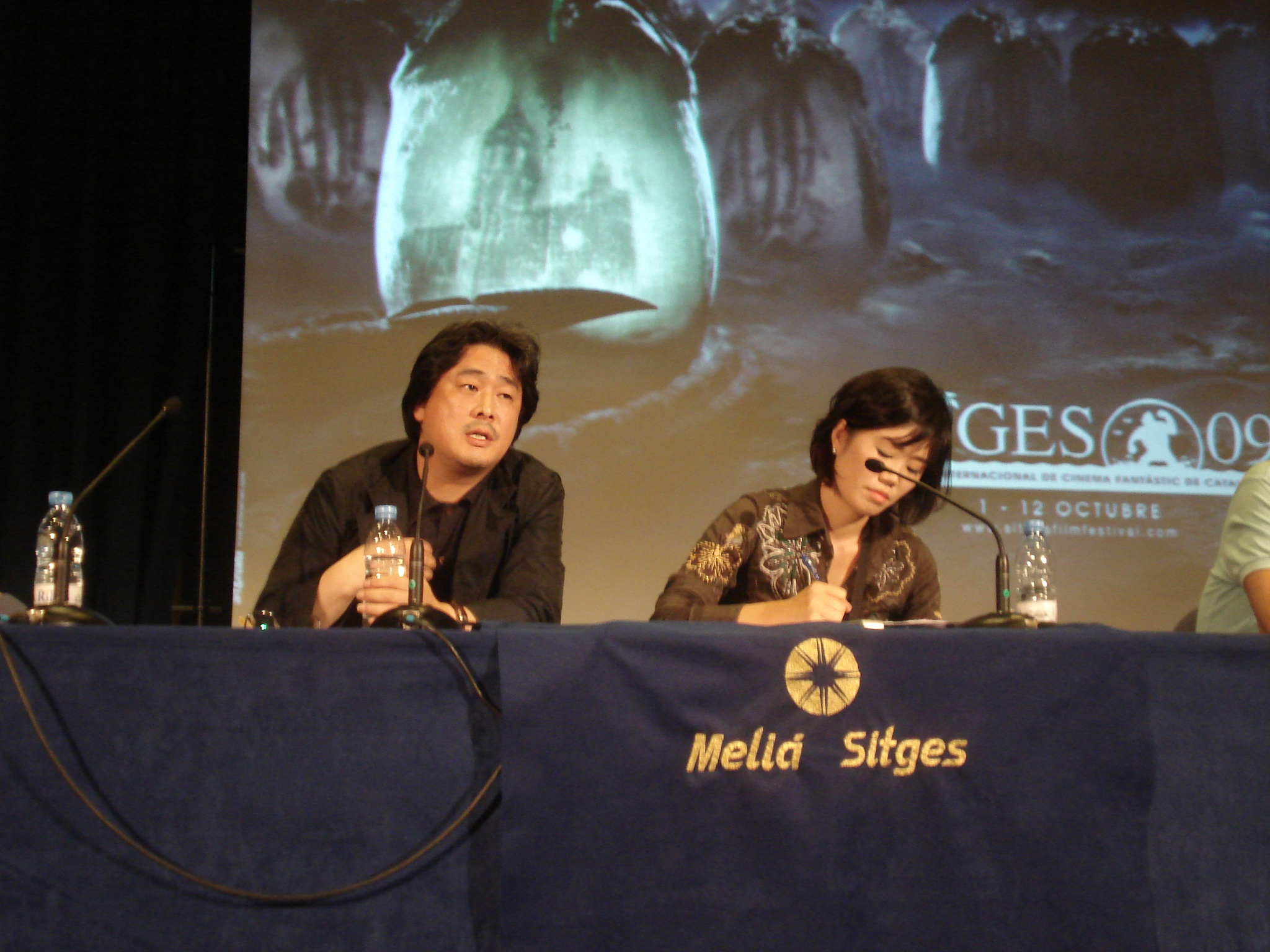 Chan Wook Park in a Master Class on the Festival Internacional de Cinema de Catalunya 2009